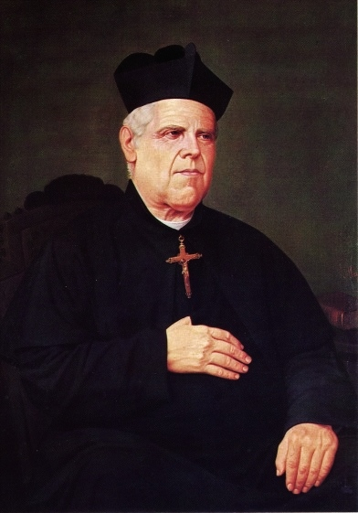 Father Raimundo dos Anjos Beirão (1810-1878), Portuguese Roman Catholic priest.